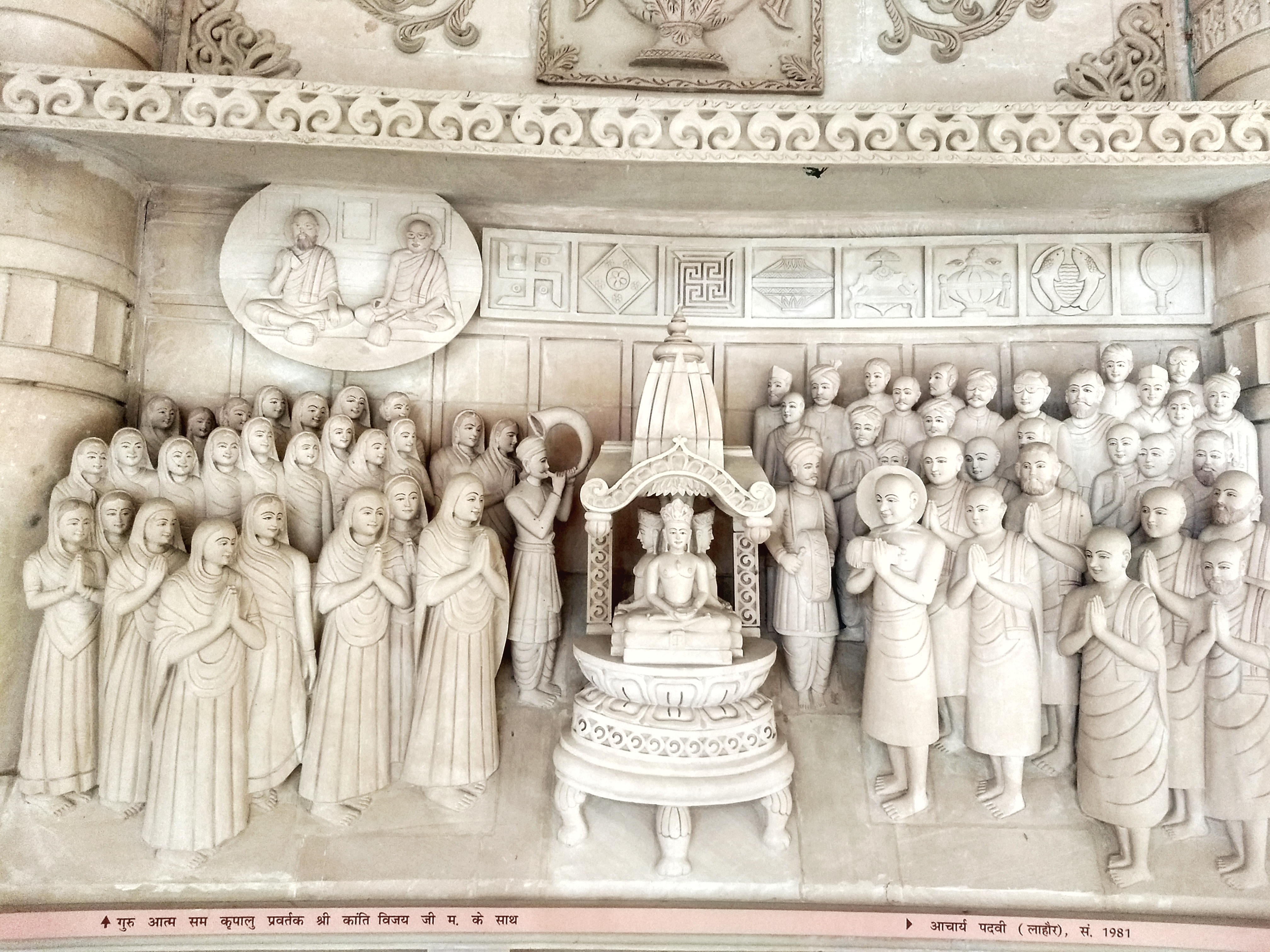 Mural Shri Atma Vallabh Jain Smarak